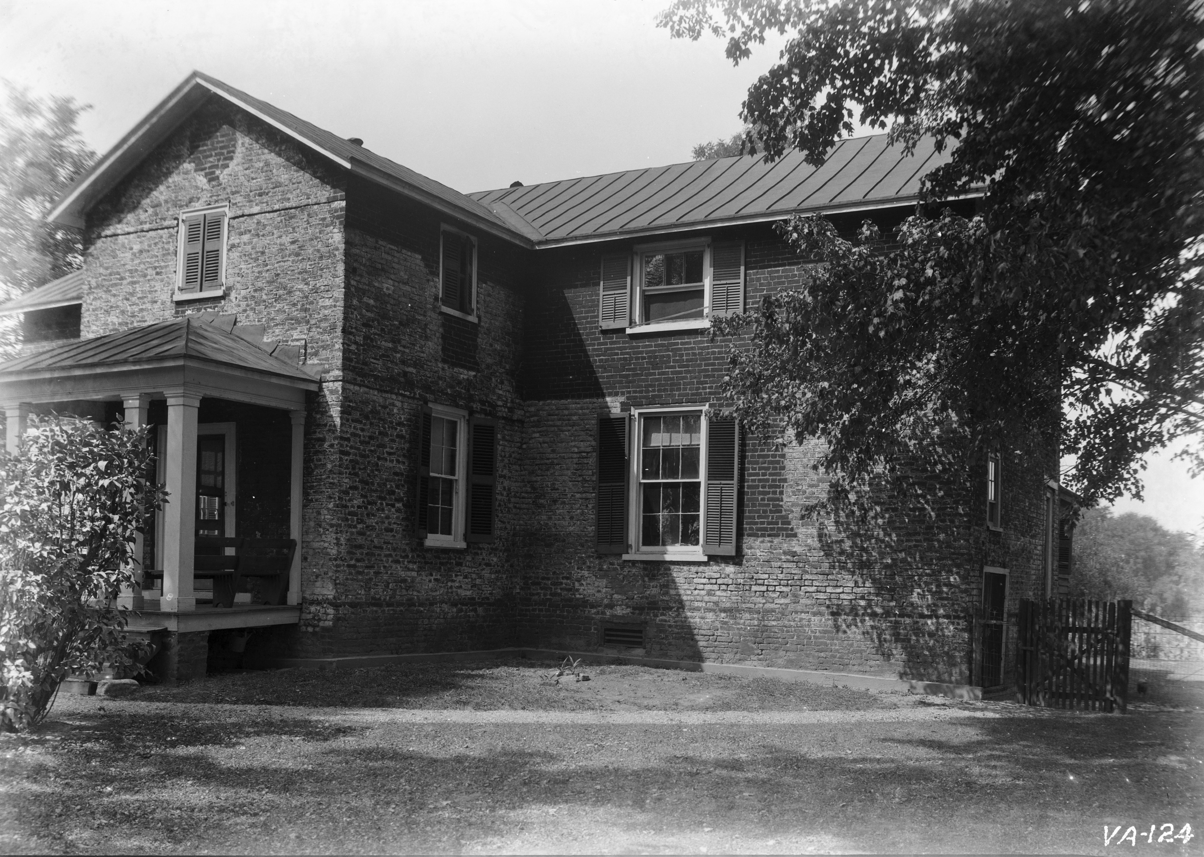 Castle, State Route 608 vicinity, Tunstall, New Kent County, VA